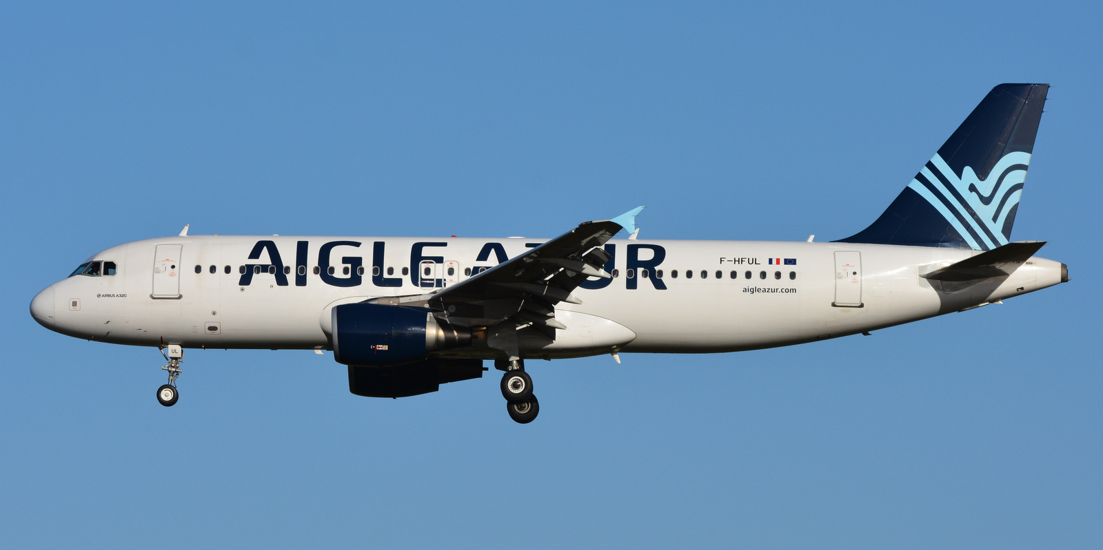 Paris-Orly Airport